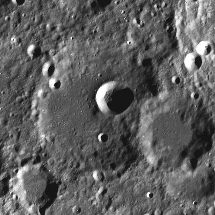 LROC .Paraskevopoulos is the eroded crater at center, also visible in image are satellites E (inside) and H (protruding into eastern rim).